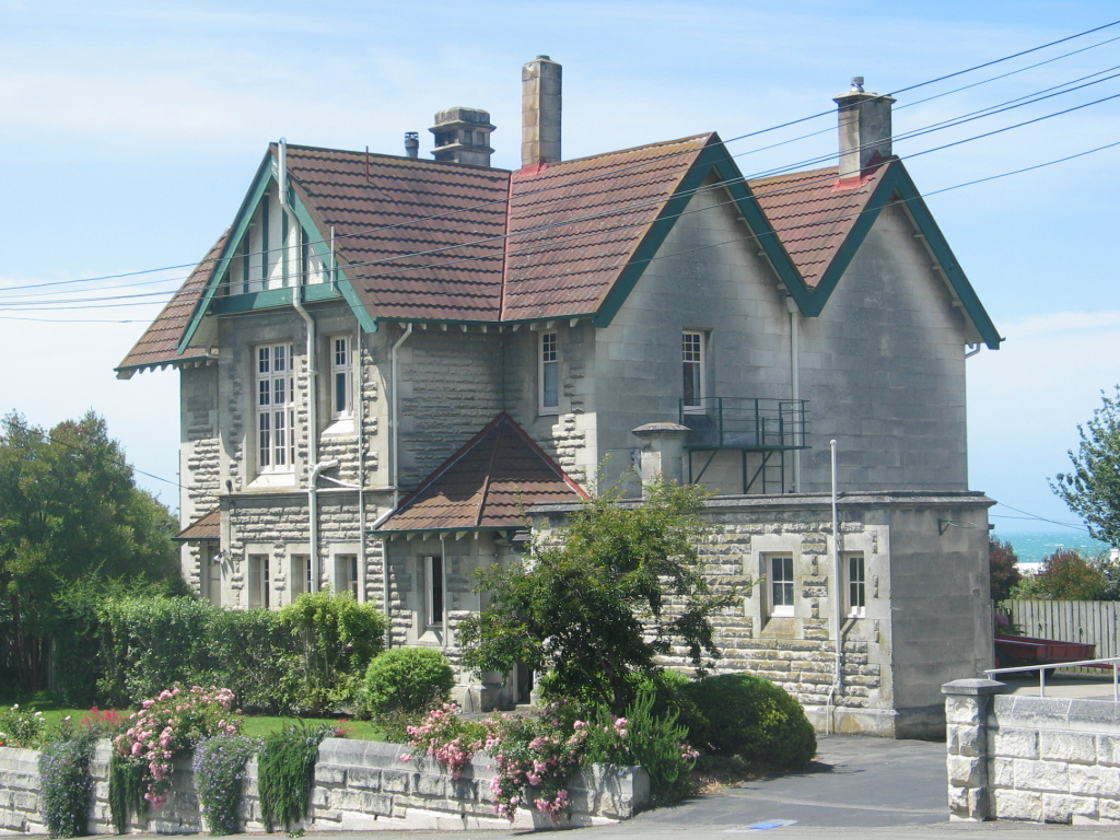 St Luke's Vicarage, 1 Wharfe Street, Oamaru, NZ, build out of White Stone. New Zealand Historic Places Trust Register number: 4884